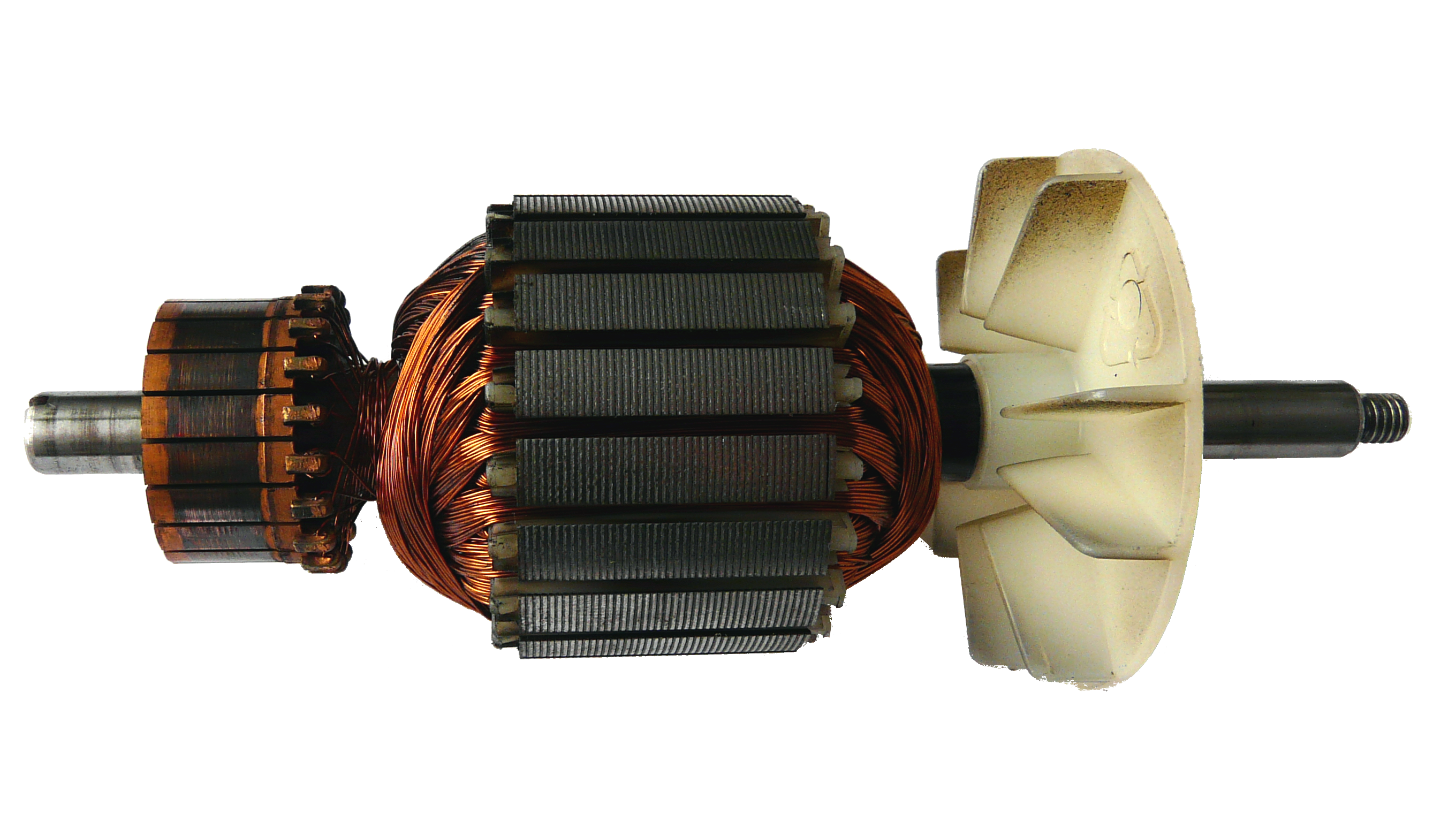 rotor